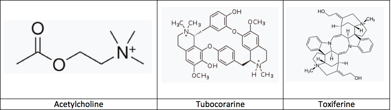 Chemical structures depicting similarities in functional groups among the three compounds.